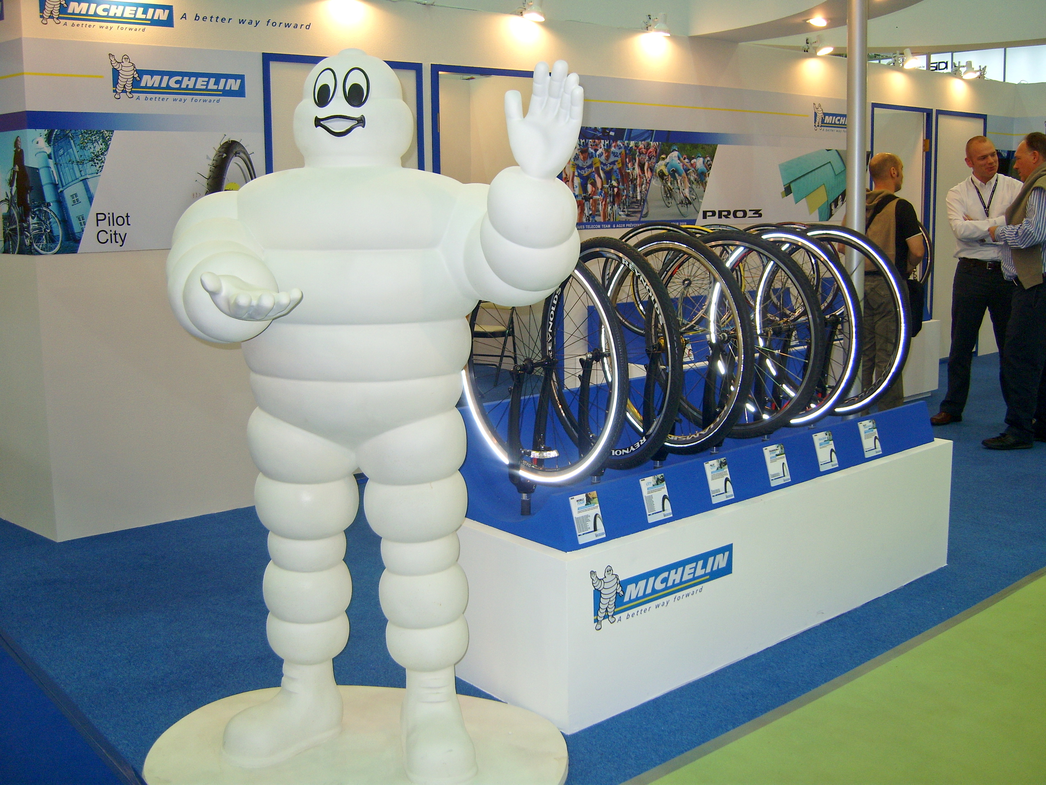 2008 Taipei Cycle: Michelin Corp..